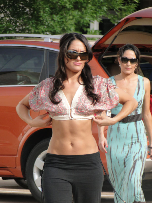 The Bella Twins (Nikki and Brie; real names Nicole and Brianna Garcia) after arriving at the venue for a WWE Raw show in Moline, Illinois on June 20, 2009.